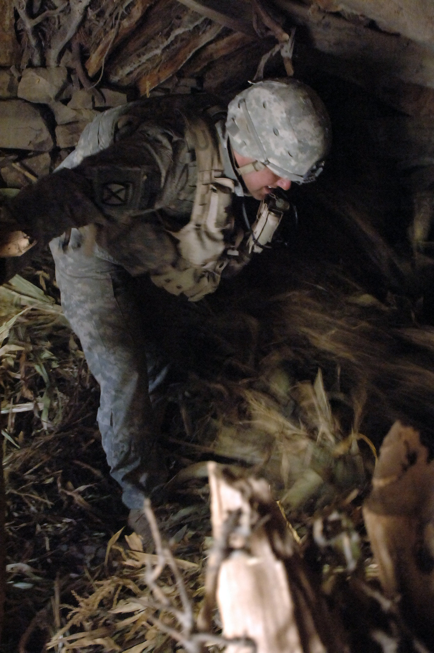 Original caption A U.S. Army Soldier searches through a hay stack in search of weapons and various other contraband located within a Taliban safehouse discovered during a patrol near the Pakistani border in the Paktika province of Afghanistan March 30, 2007. The patrol is part of a mission intended to disrupt enemy movement in areas known to have enemy activity. The Soldier is assigned to Charlie Company, 2nd Battalion, 87th Infantry Regiment, 10th Mountain Division. (U.S. Army photo by Staff Sgt. Justin Holley) (Released)